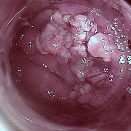 High definition proctoscopy of condylonamata in the anal